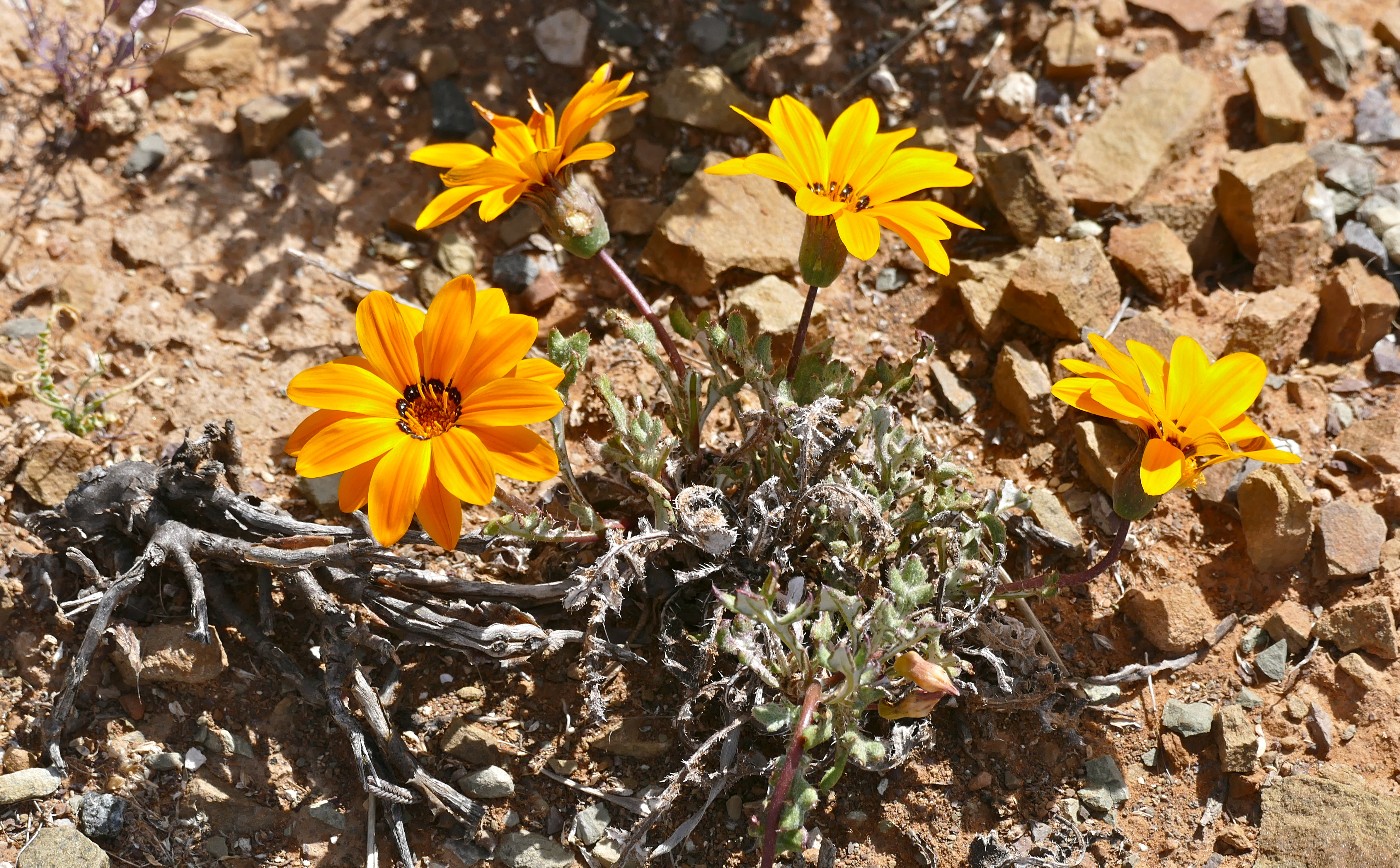 R61 Road west of Graaf Reinet, Eastern Cape, SOUTH AFRICA